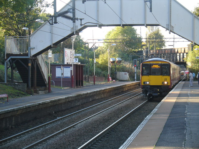 Glasgow-bound at Scotstounhill